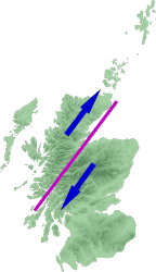 Illustration of the location and slippage of the Great Glen Fault